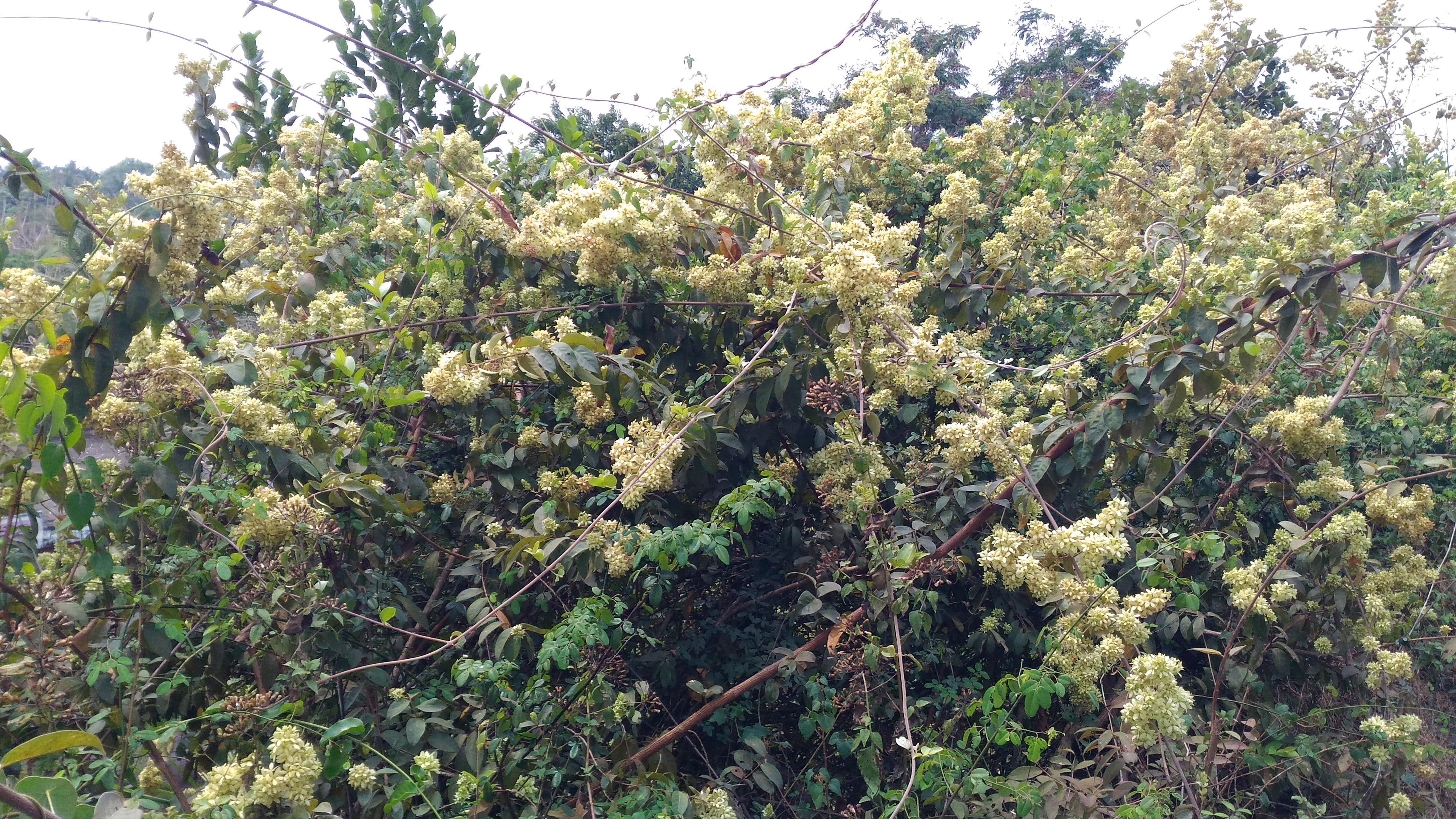 Flowers of Pullanji plant